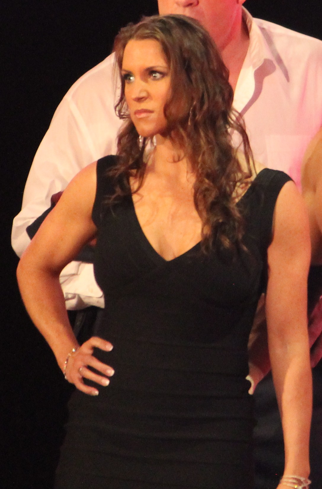 Stephanie McMahon at the post-WrestleMania Raw on 7 April 2014 in New Orleans, Louisiana.